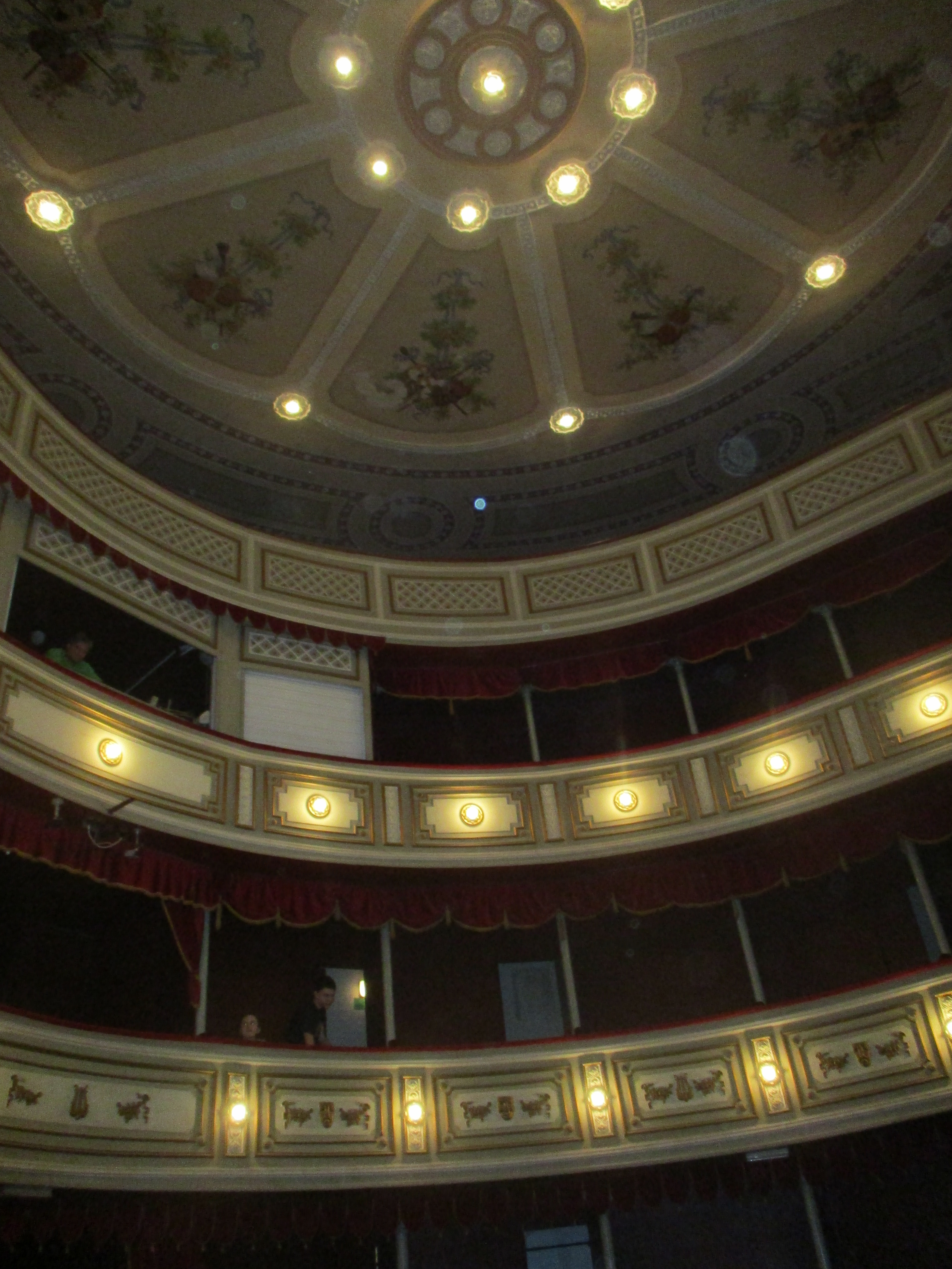 Theatre Toša Jovanović from 19th century in Zrenjanin, 3 June 2017, during "Naša slovenska beseda"